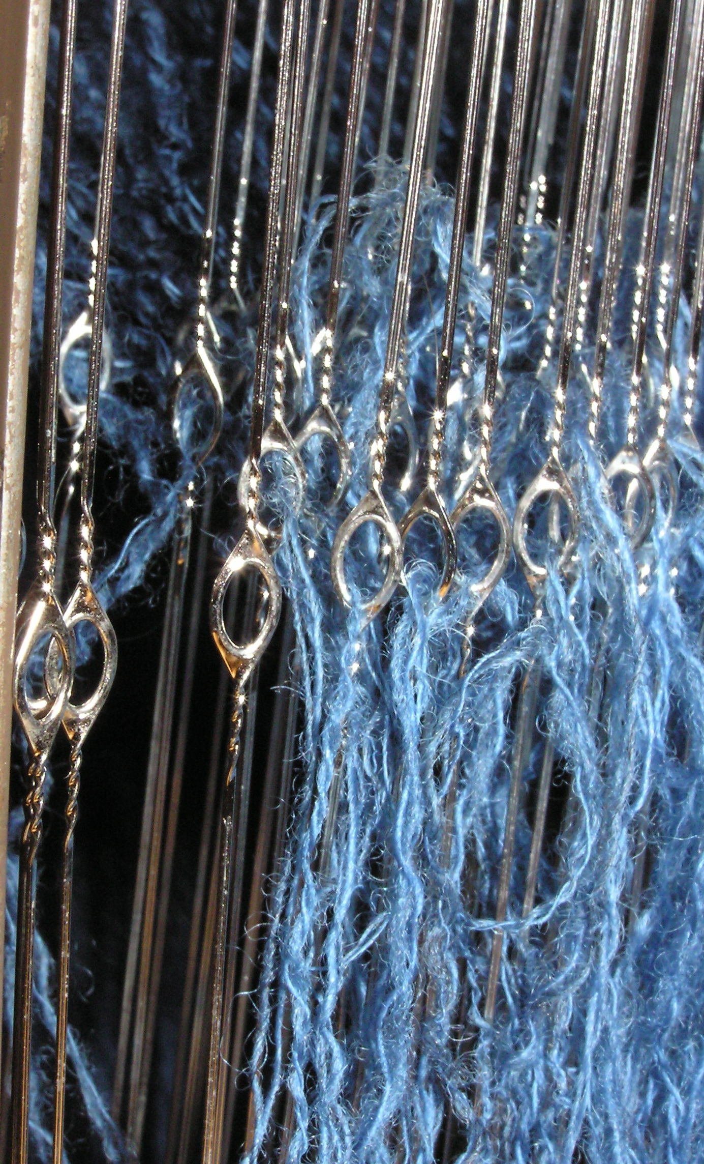 A close up on heddles, with a blue warp that is not under tension.